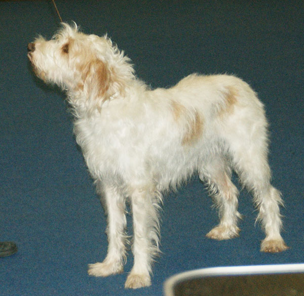 A female Istrian Hound, Coarse-haired. Colour: white & orange.